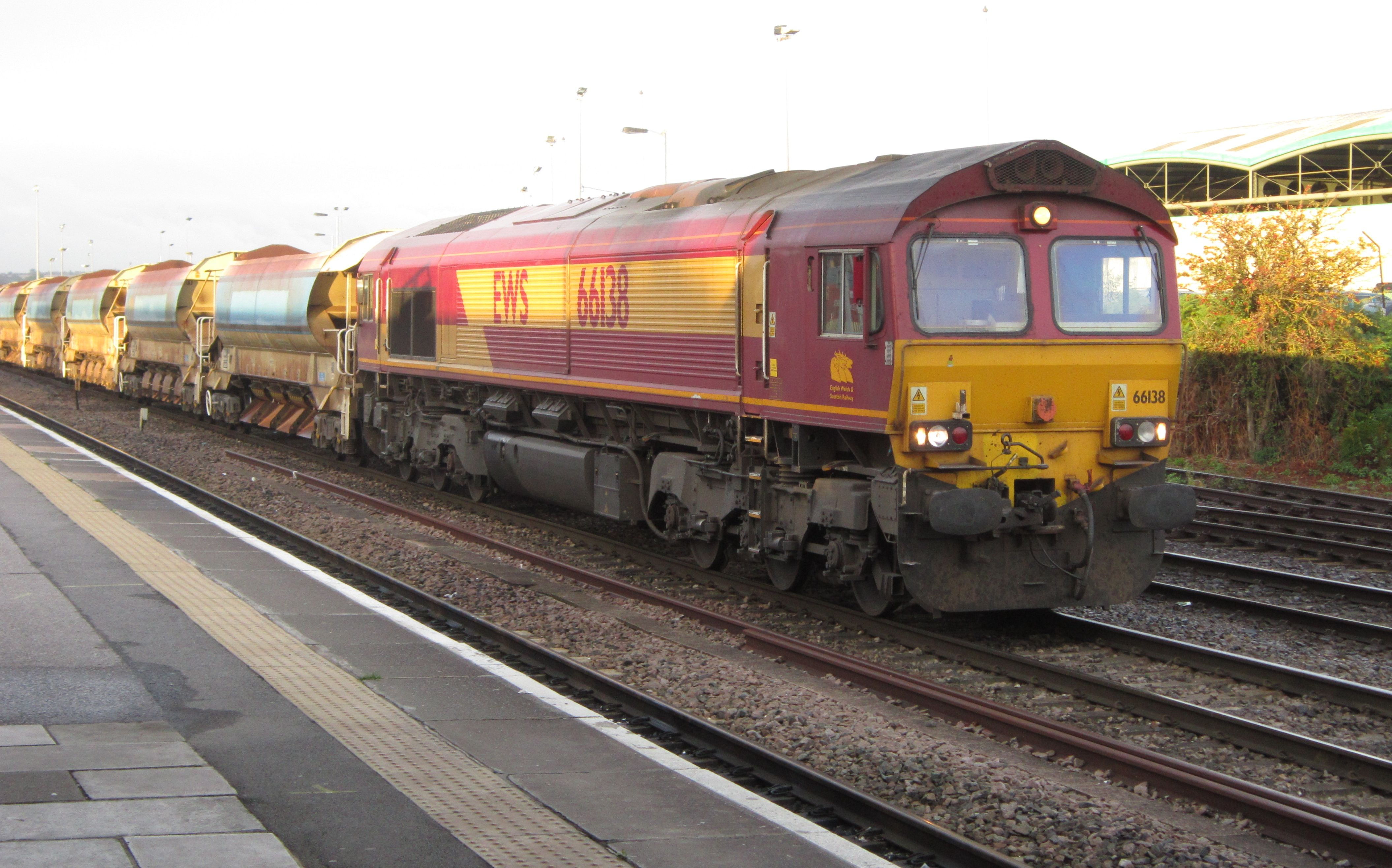 British Rail Class 66 at Westbury railway station